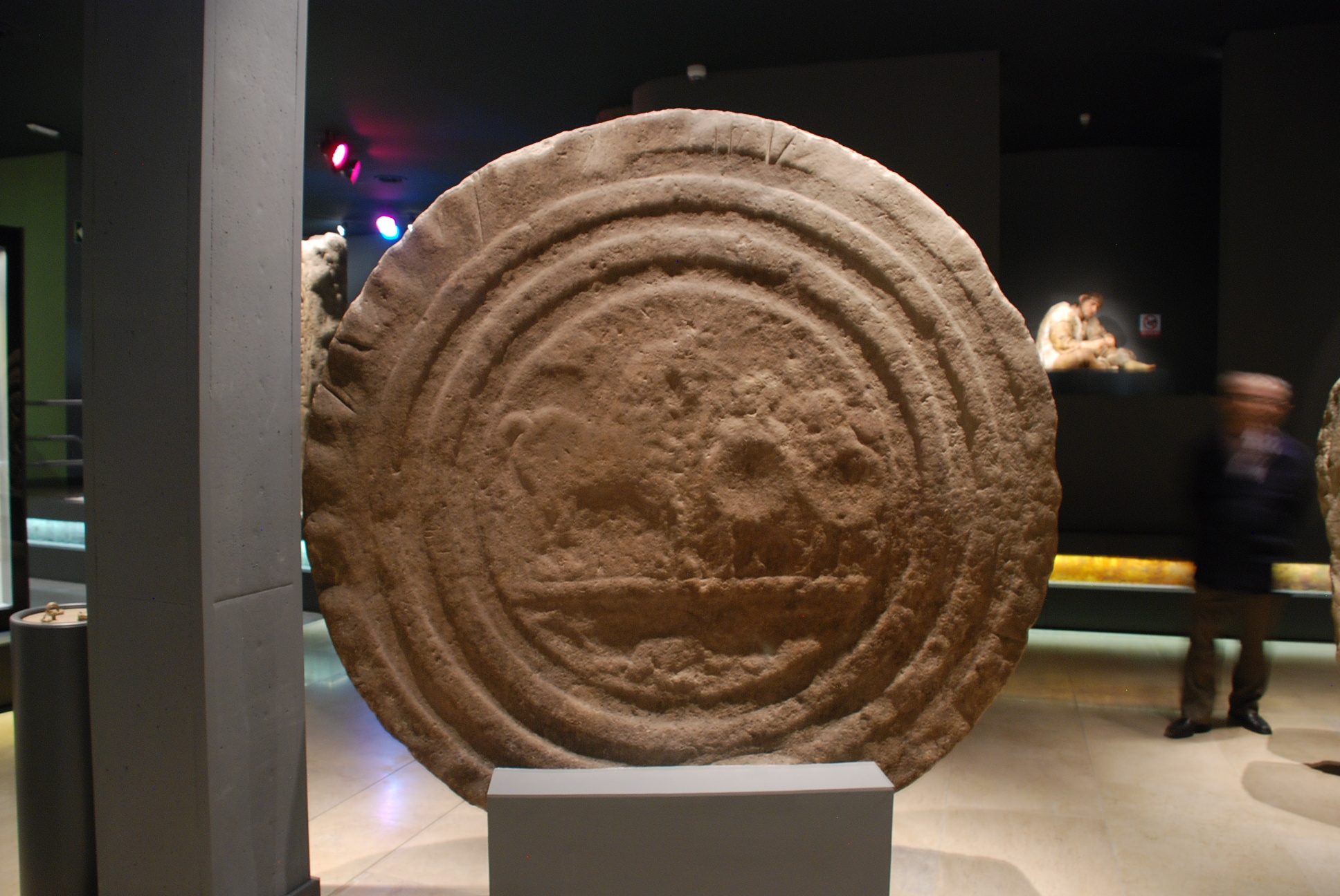 Museum of Prehistory and Archaeology of Cantabria. Obverse of the stele from Zurita (Cantabria).